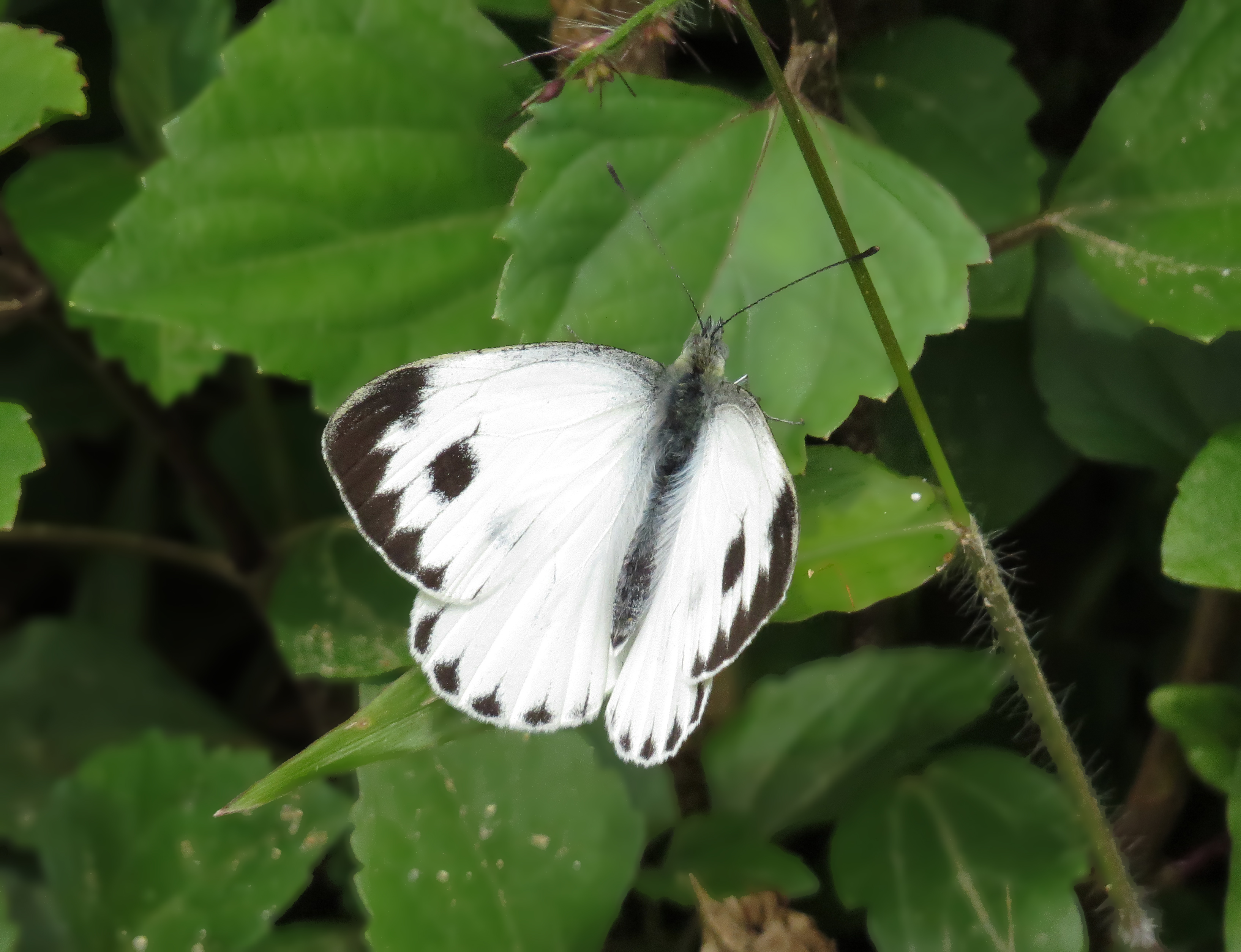 The Indian Cabbage White (Pieris canidia) is a butterfly in the family Pieridae. Pieris rapae is one of the closest species in the pieridae family.